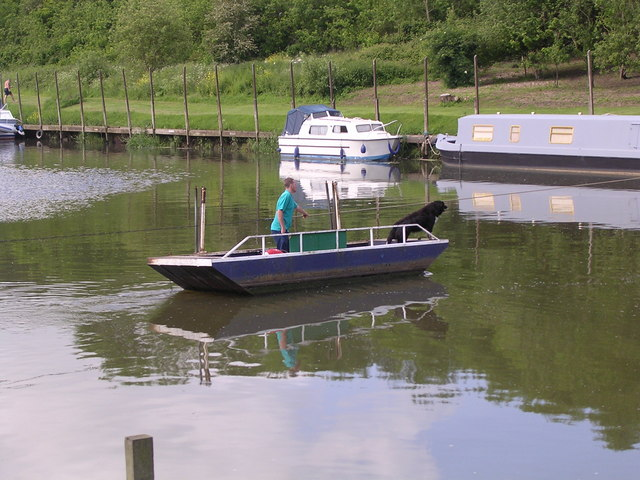 Hampton Ferry, linking the town of Evesham and the village of Hampton across the River Avon in the English county of Worcestershire. For more information see the Wikipedia article Hampton Ferry (River Avon).